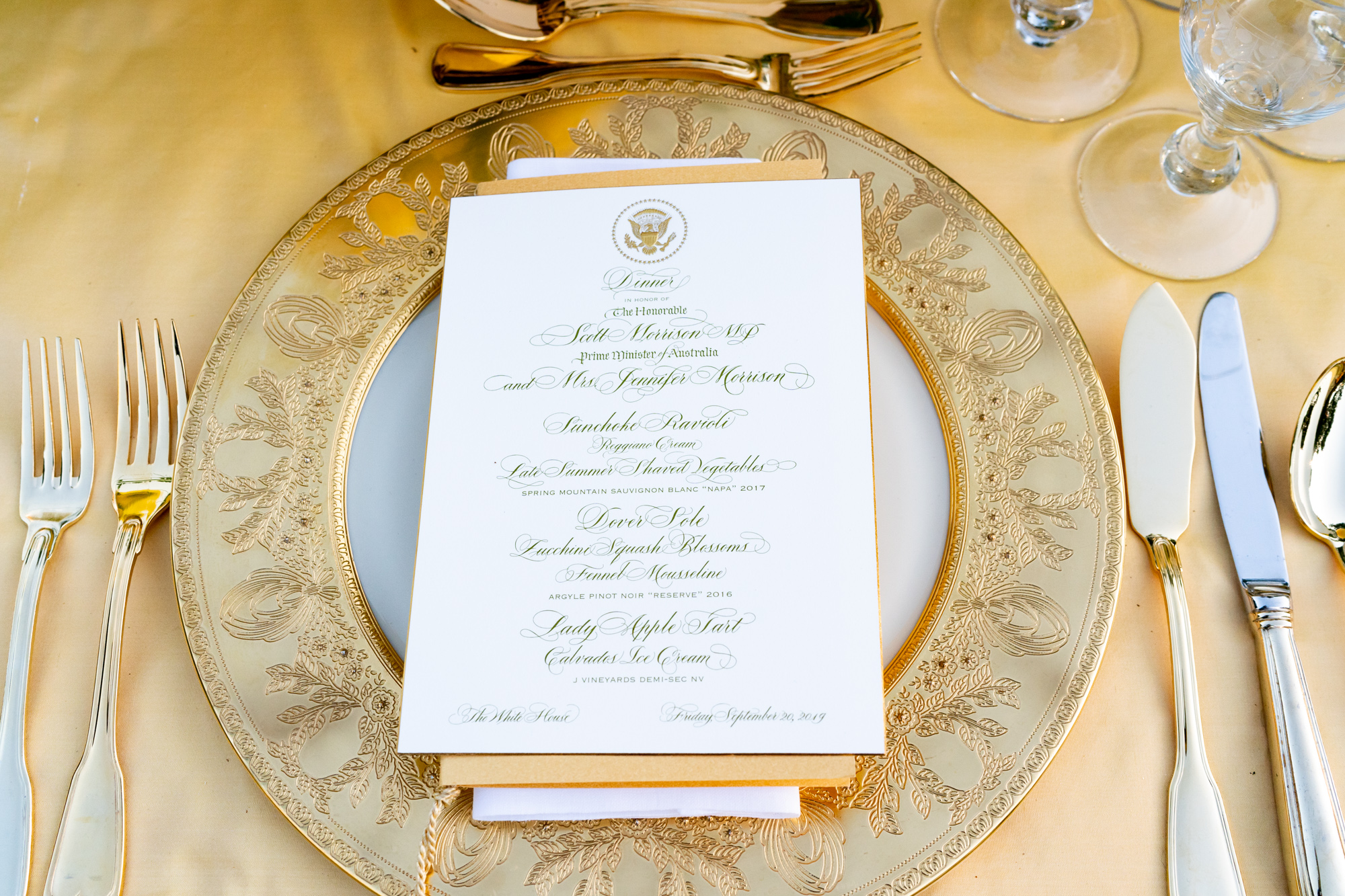 The dinner menu for the State Dinner in honor of the Australian Prime Minister Scott Morrison and his wife Mrs. Jenny Morrison is seen Friday, Sept. 20, 2019, in the Rose Garden of the White House. (Official White House Photo by Andrea Hanks)